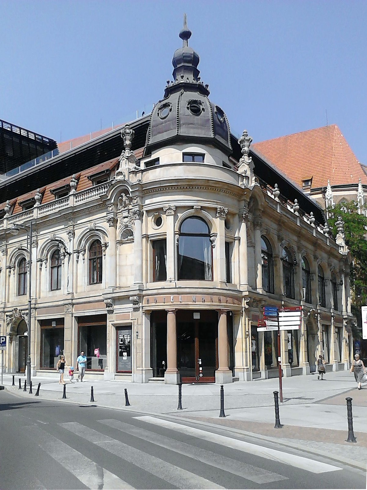 Monopol Hotel in Wrocław